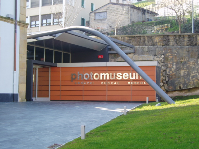 The Basque Museum of Photography (a.k.a. Photomuseum) in Zarautz (Gipuzkoa).